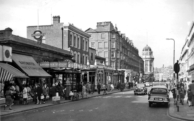 Bayswater (Queensway) Station. View northward, up Queensway; Circle Line station entrance on left.